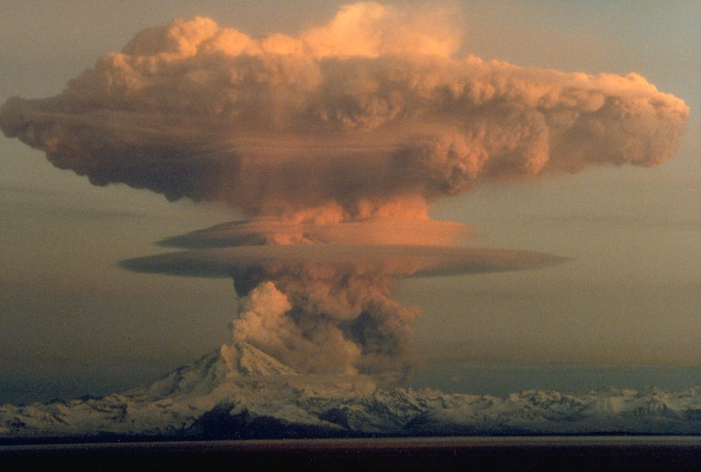 Picture of Mount Redoubt Eruption on April 21, 1990. Ascending eruption cloud from Mount Redoubt in Alaska as viewed to the west from the Kenai Peninsula. The mushroom-shaped plume rose from avalanches of hot debris (pyroclastic flows) that cascaded down the north flank of the volcano. A smaller, white steam plume rises from the summit crater.